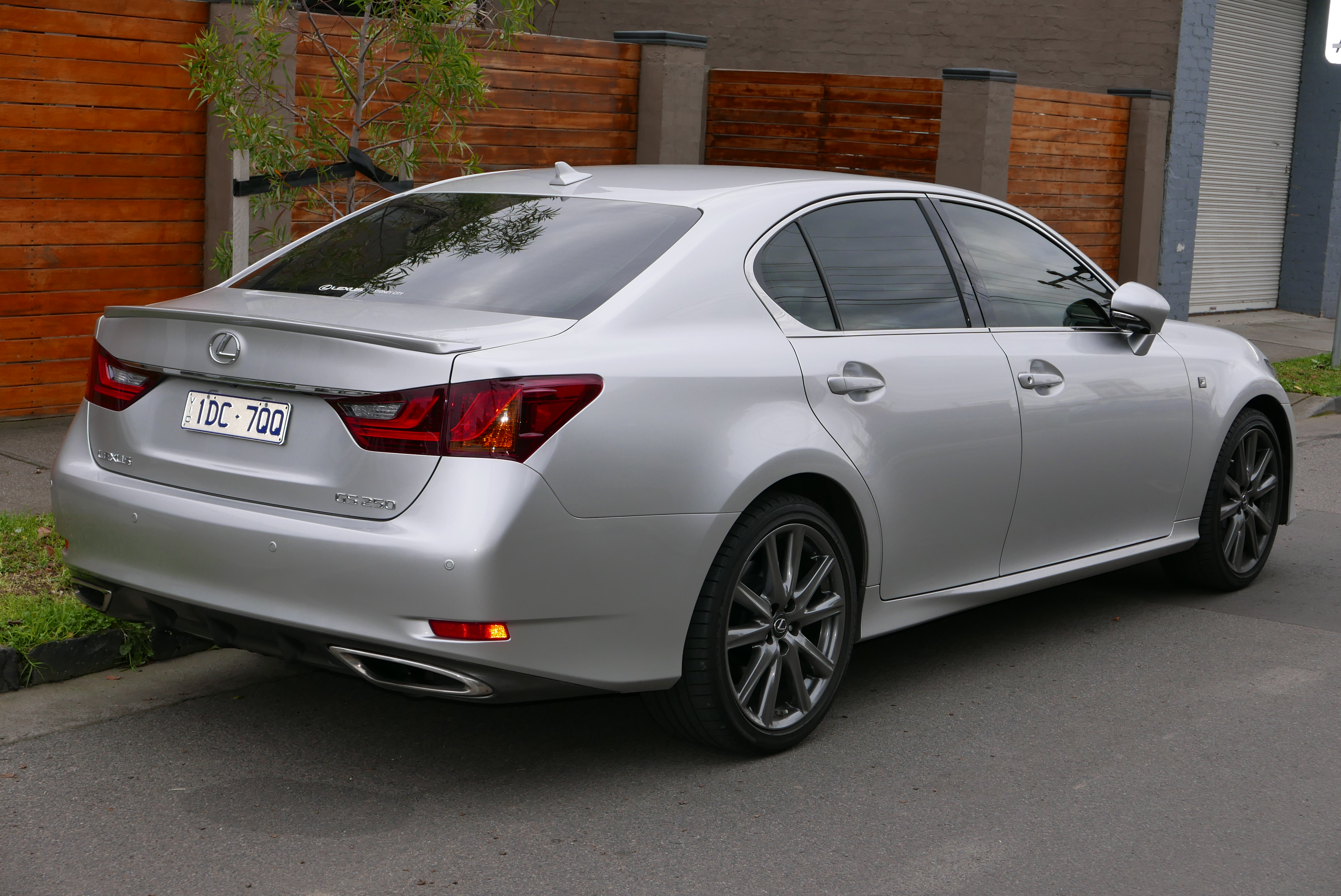 2013 Lexus GS 250 (GRL11R) F Sport sedan. Photographed in Alphington, Victoria, Australia. Vehicle registration enquiry resultsJurisdictionVictoriaRegistration1DC7QQChassis codeJTHBF1BL705008814Engine code4GR0917765Compliance date2013-07Year of manufacture2013